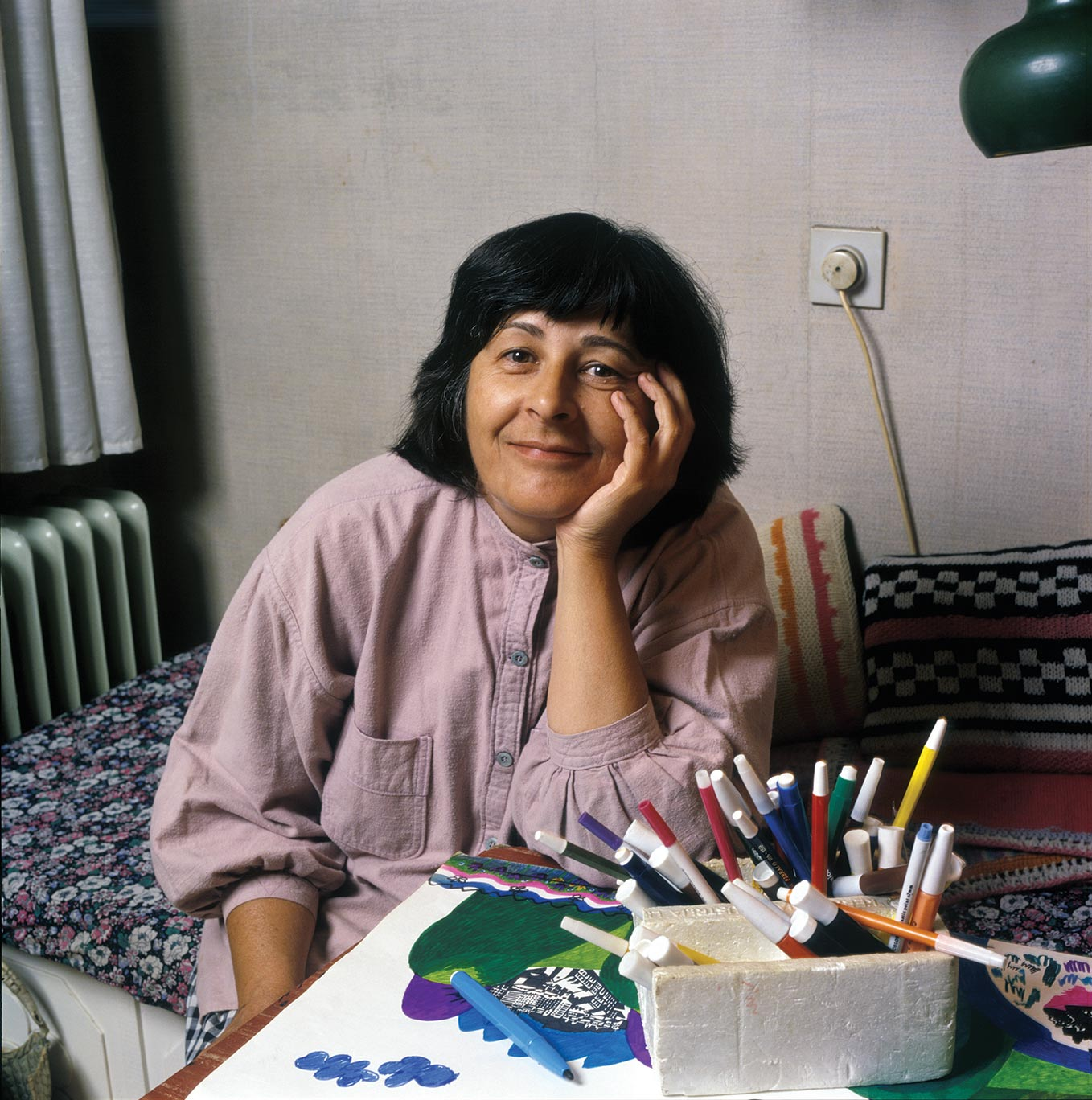 Ivanka Ida Ćirić (1932-2007), a Serbian visual artist